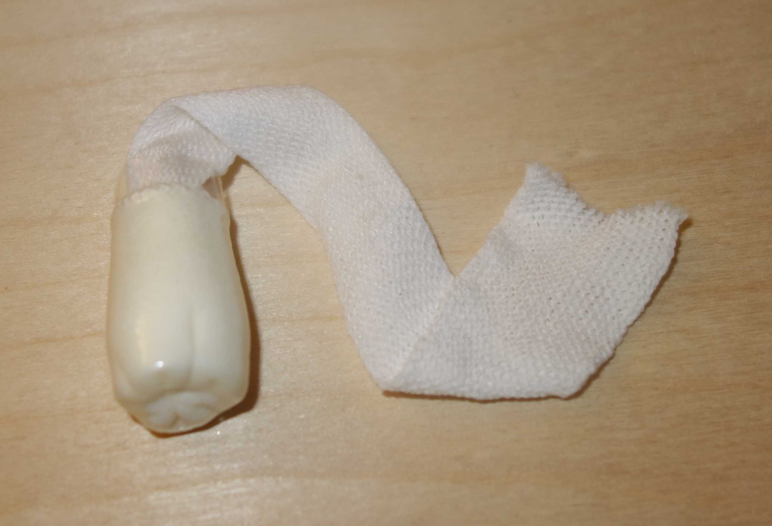 anal tampon for fecial incontinence